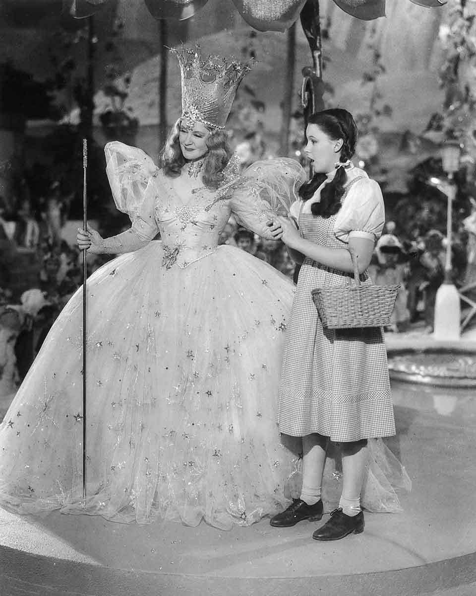 Billie Burke and Judy Garland in The Wizard of Oz (1939), promotional photo.